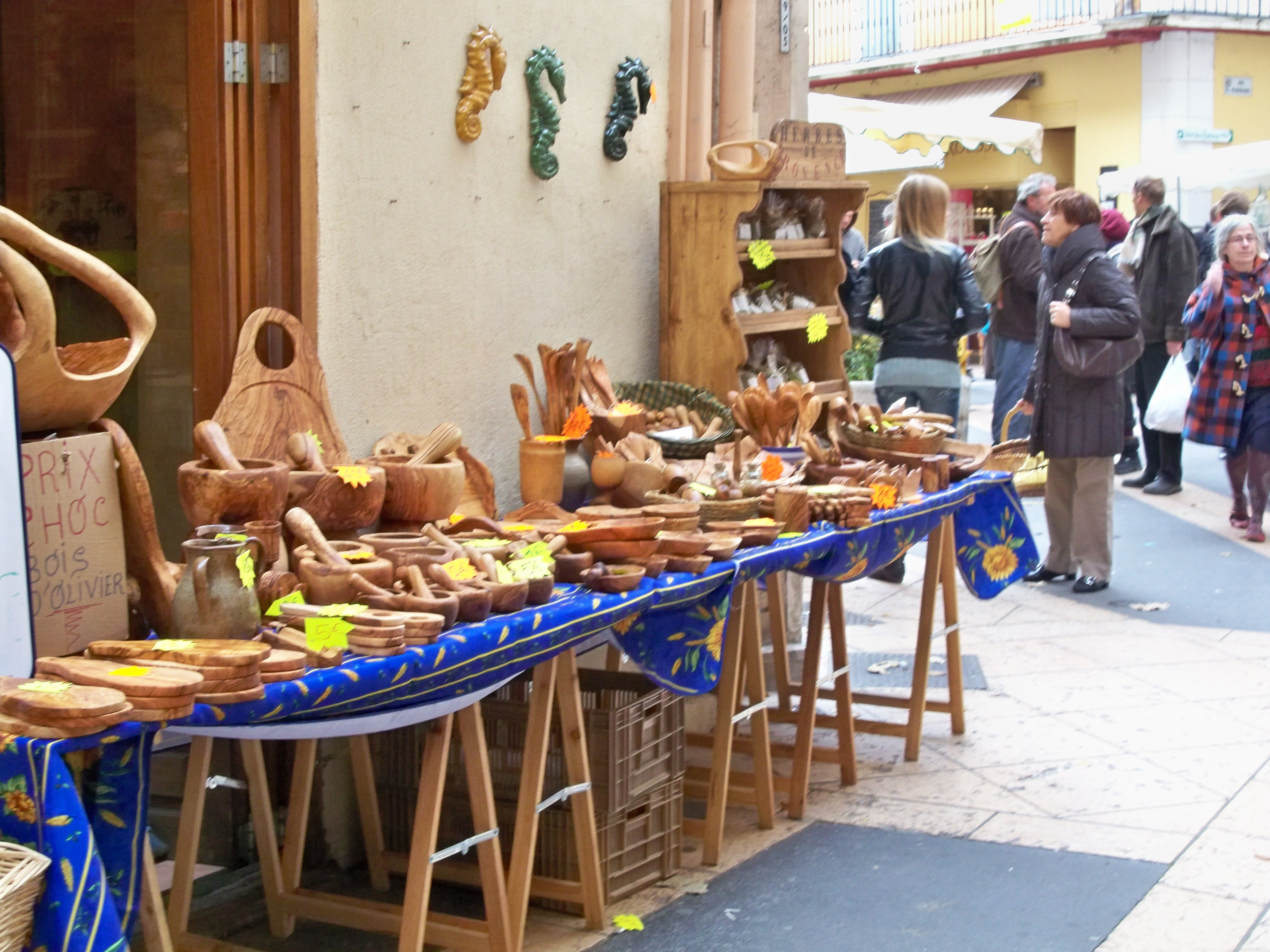 tools in oliver wood